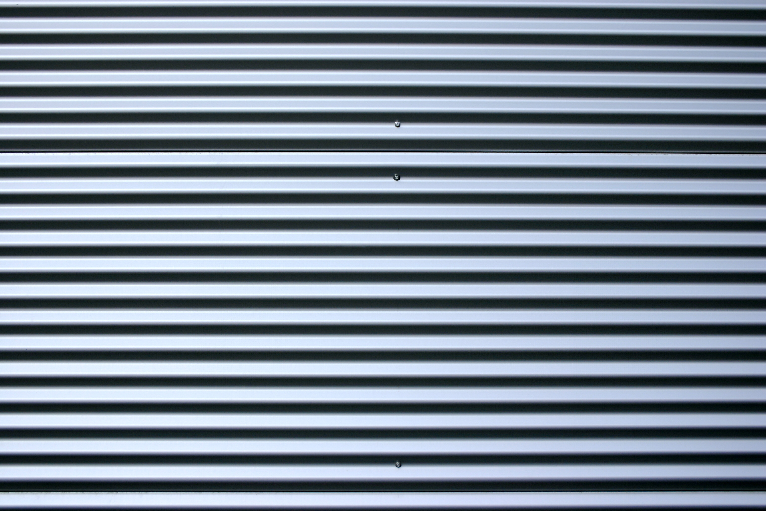 Steelwall